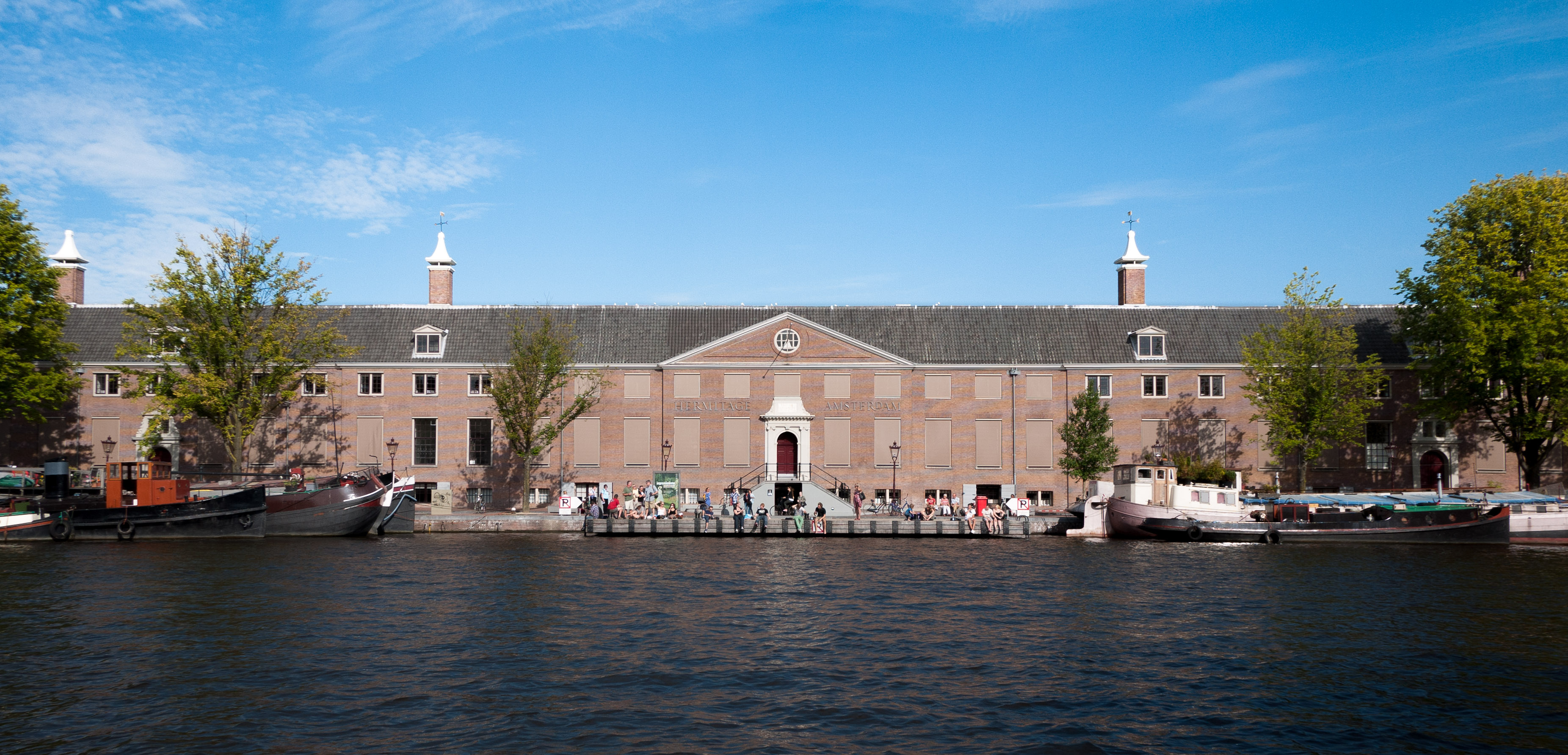 Hermitage Amsterdam, Amstel river façade